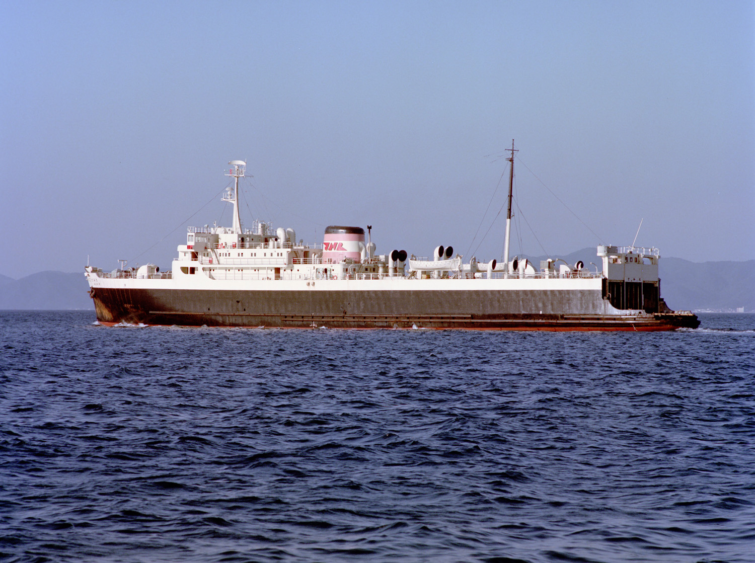 The Japanese National Railways train ferry between Aomori and Hakodate MS SORACHI MARU 1 leaving from Aomori port